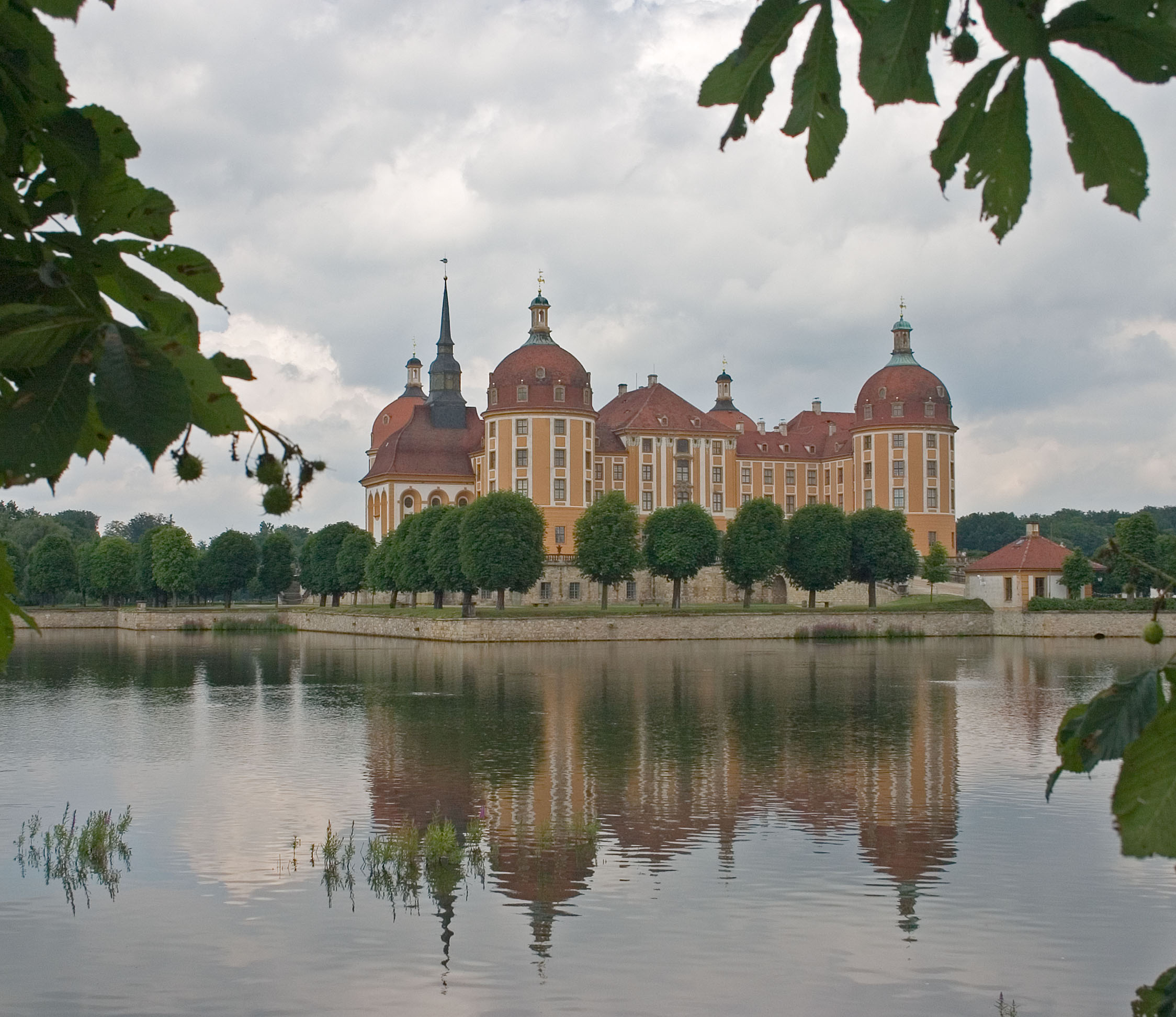 Moritzburg castle near Dresden